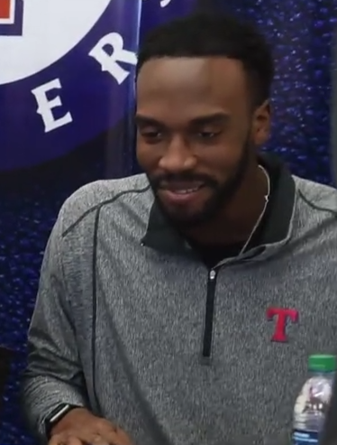 Players from the Texas Rangers organization visited Dyess Air Force Base, Texas, Jan. 28, 2019.